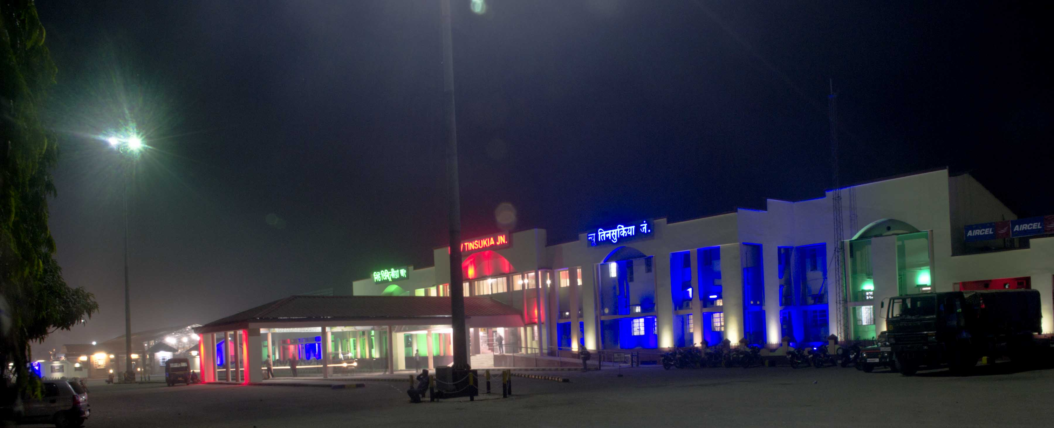 A View of the NTSK Railway Junction